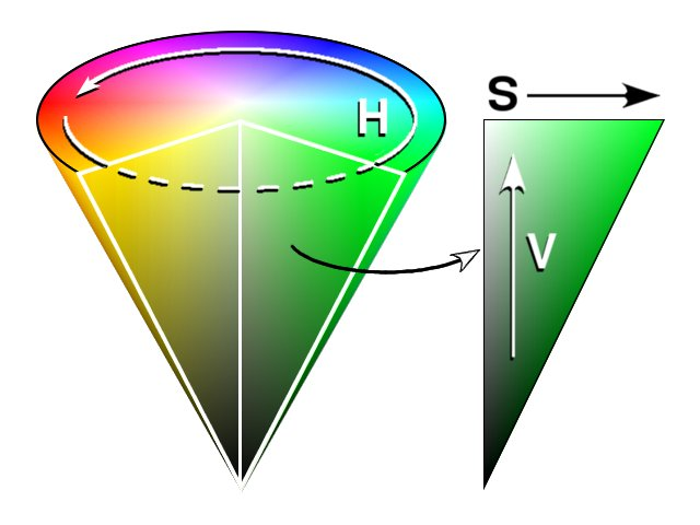 HSV color space visualization; HSV as a conical object. Created by Wapcaplet in the GIMP.